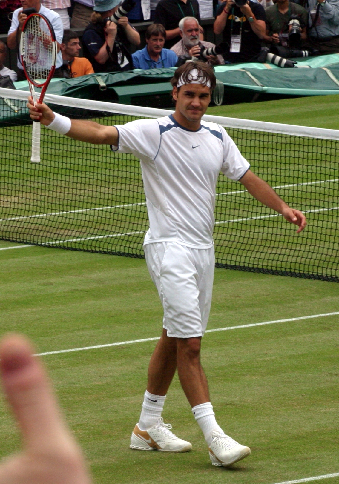 Roger Federer beating Lleyton Hewitt 6-3 6-4 7-6 in the Semi Finals of the Wimbledon Championships